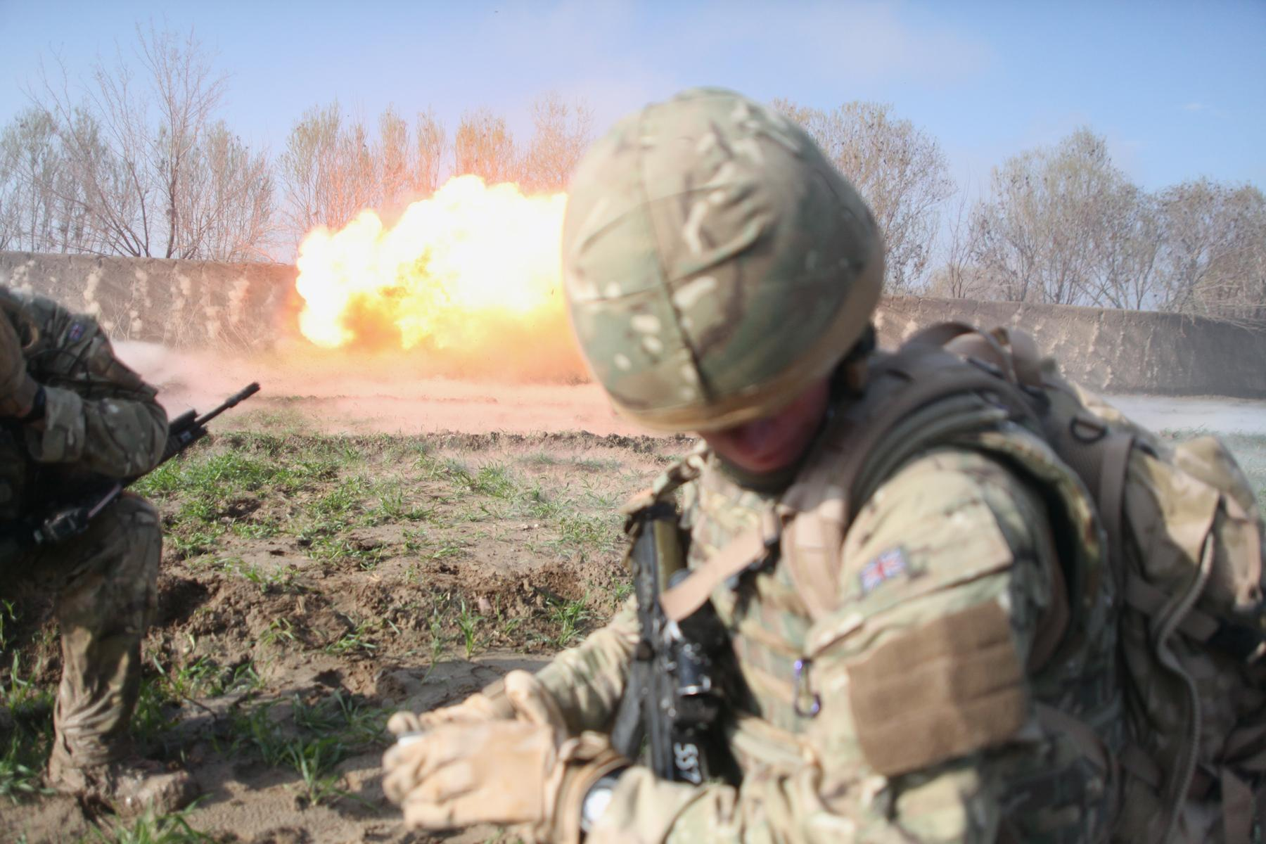 Lance Cpl. Daniel Devaney, an engineer from the 5th Armored Engineer Squadron, 23 Engineer Regiment, detonates a bromine charge to blow a hole in a wall during an operation in the village of Pasab, Afghanistan, March 5. Creating paths through walls allows the soldiers to avoid choke points where insurgents could stage ambushes or improvised explosive devices. The EXIF data says this image is in the public domain.